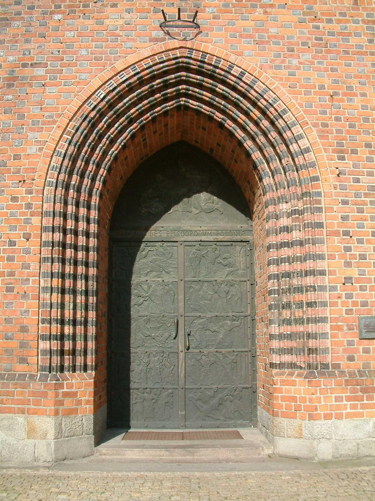 Portal of Poznań Archcathedral Basilica